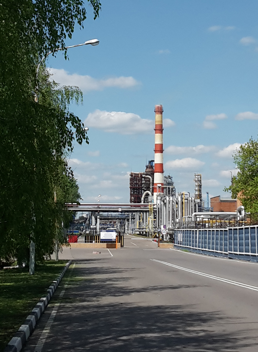 Gazpromneft — Moscow refinery.